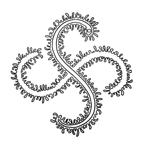 Sugaar, the male half of Mari basque goddess